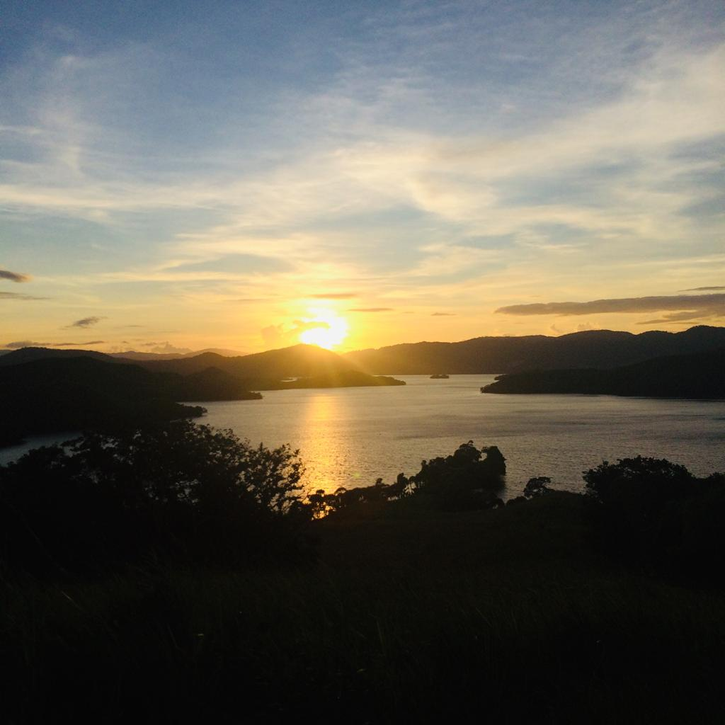 Bukit Teletabis merupakan bukit yang berlokasi di barat danau Sentani